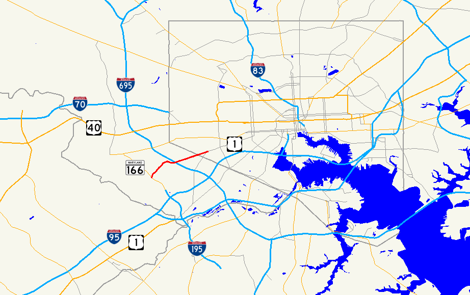 Map of Maryland 372